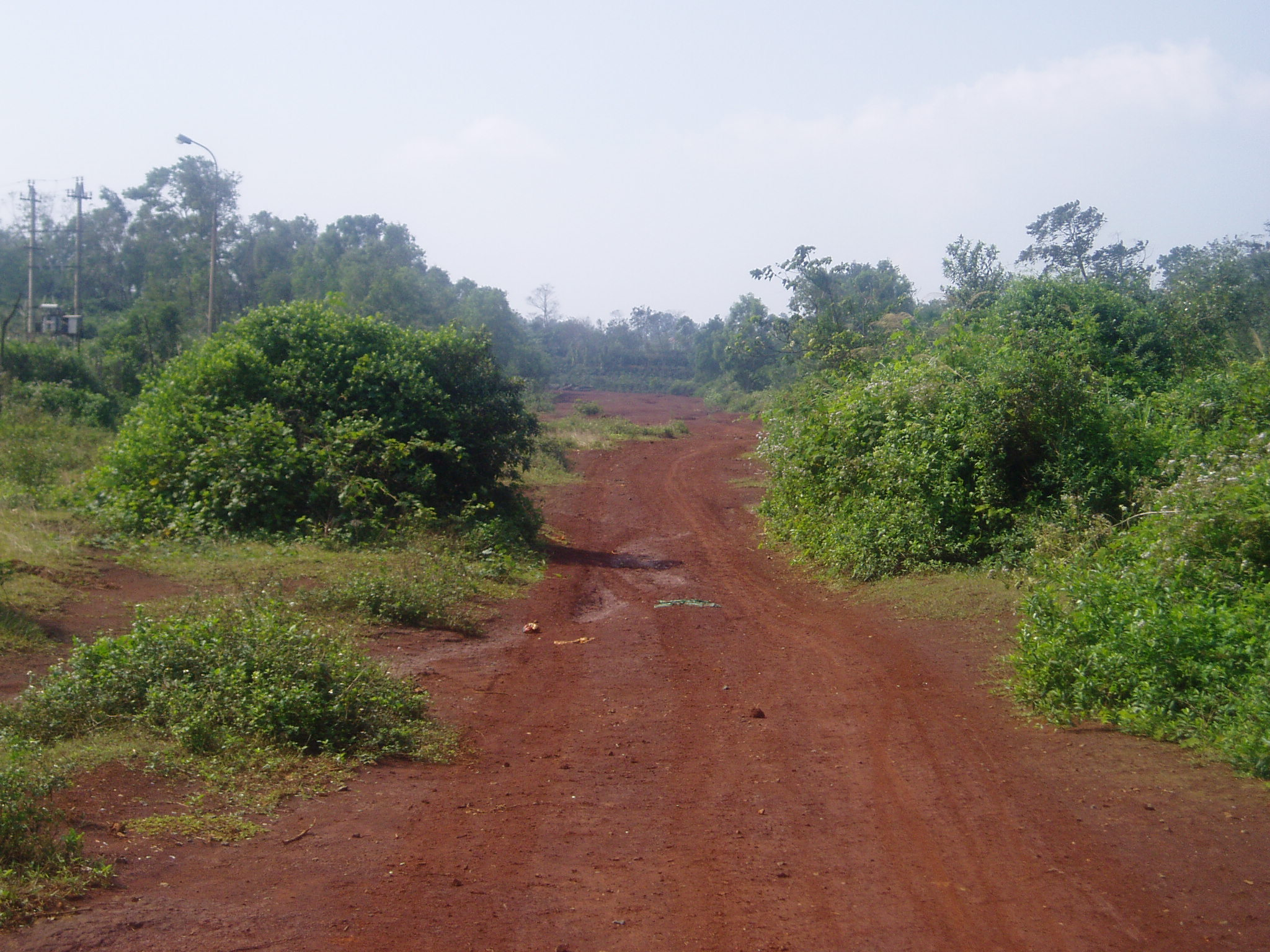 This is a photo taken while standing on the old airstrip at Khe Sahn looking west.